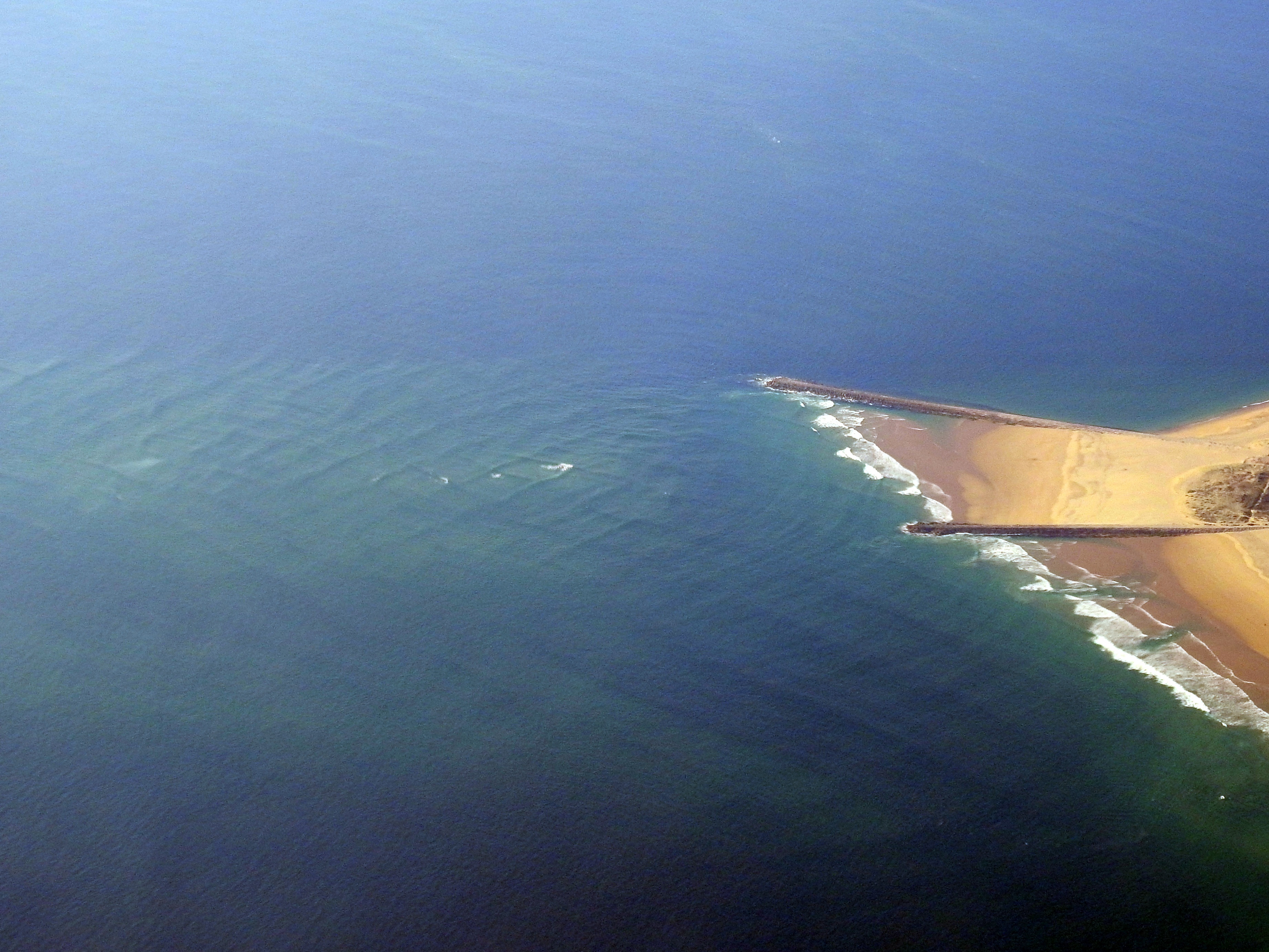 Cross sea near Lisbon, Portugal in April 2019.